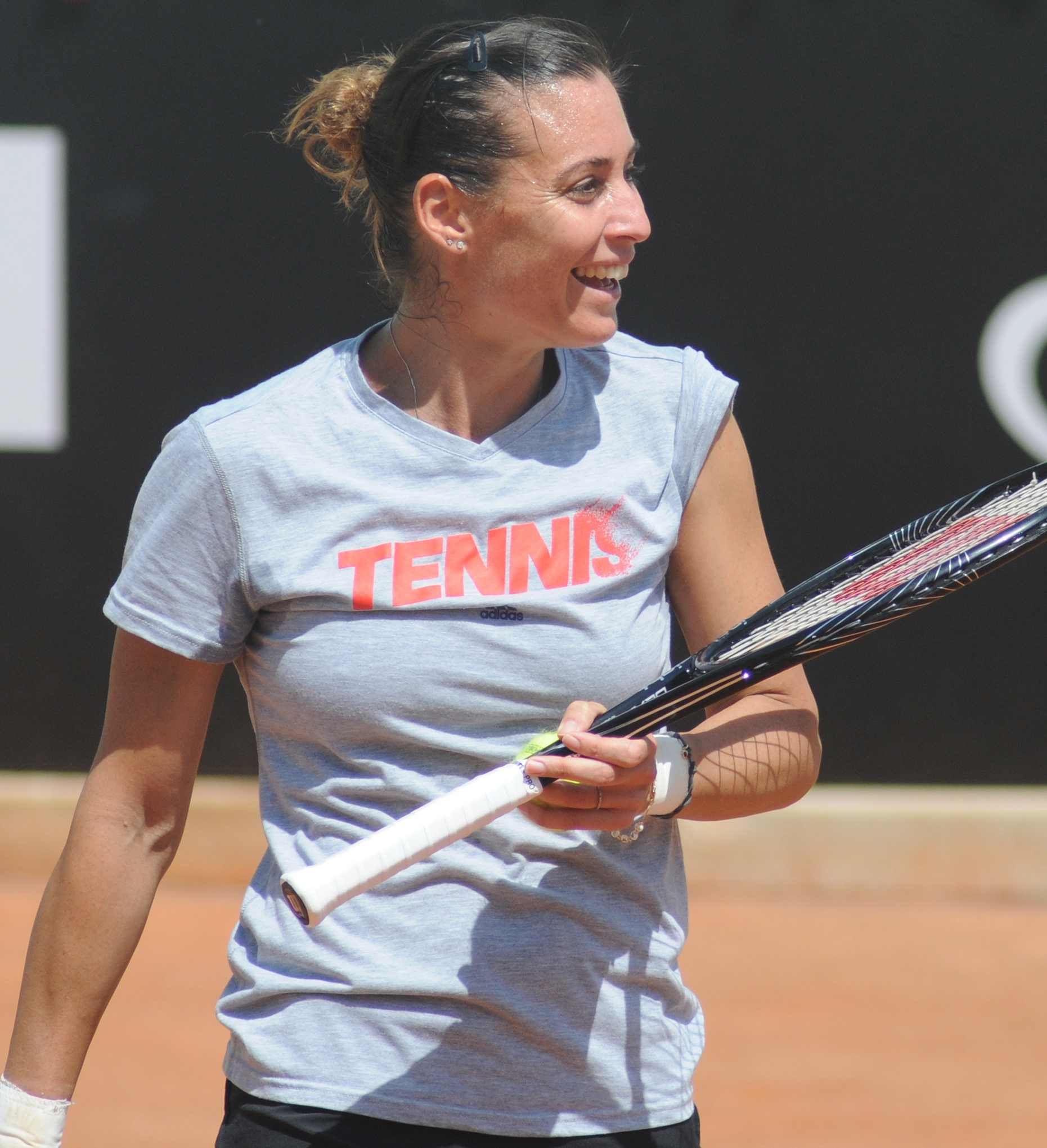 Flavia Pennetta at the 2014 Internazionali BNL d'Italia aka the Rome Masters